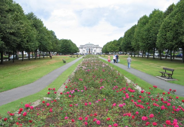 Lady Lever Art Gallery, Queen Mary's Drive, Port Sunlight